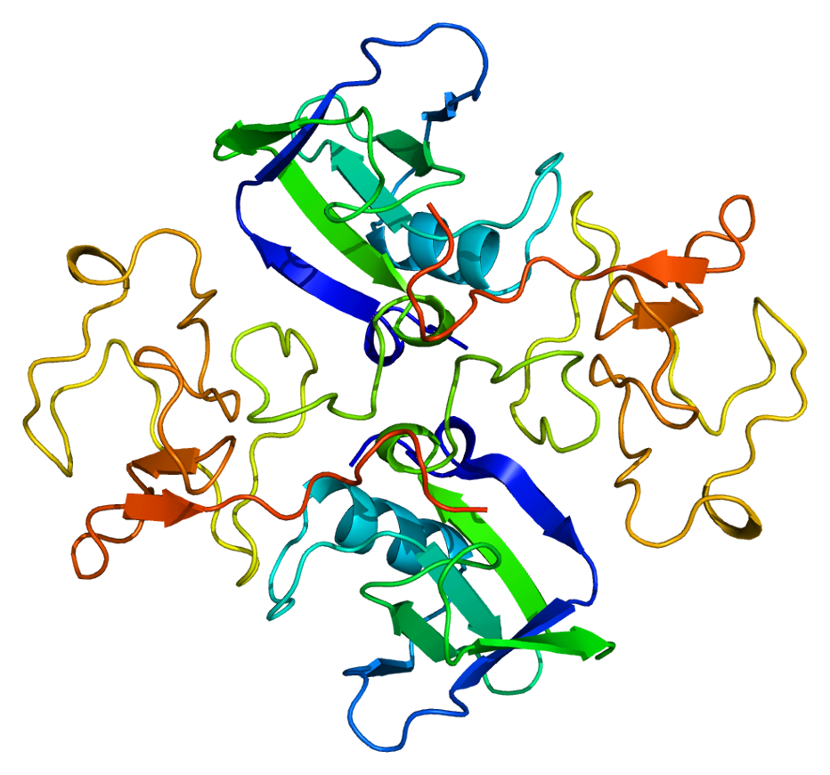 Structure of the HGF protein. Based on PyMOL rendering of PDB 1bht.